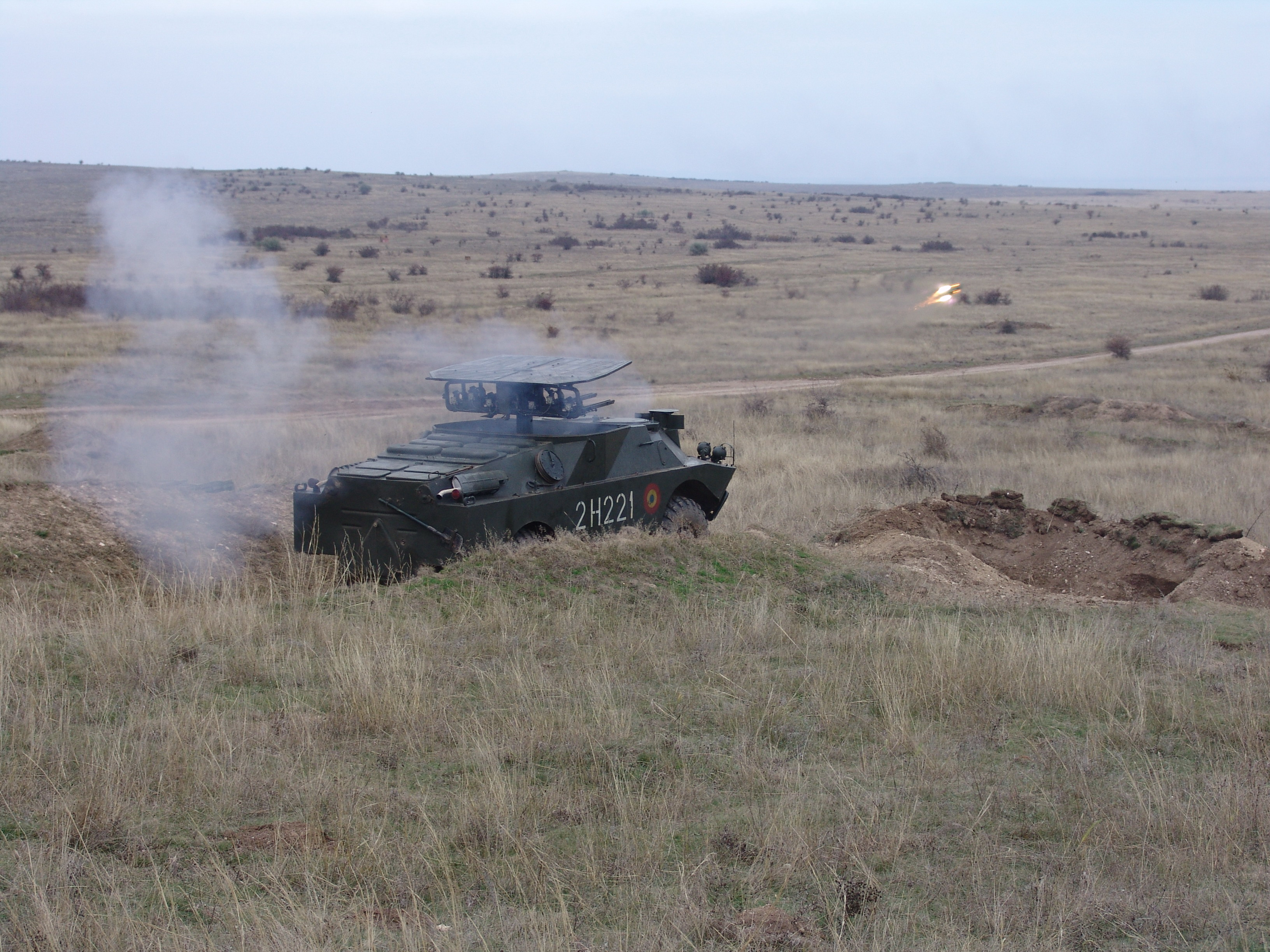 Missile launch of a 9P133 Malyutka at Babadag firing range during the strategic exercise "DACIA 2010" of the Romanian Army. The photo was taken on 1 November 2010.